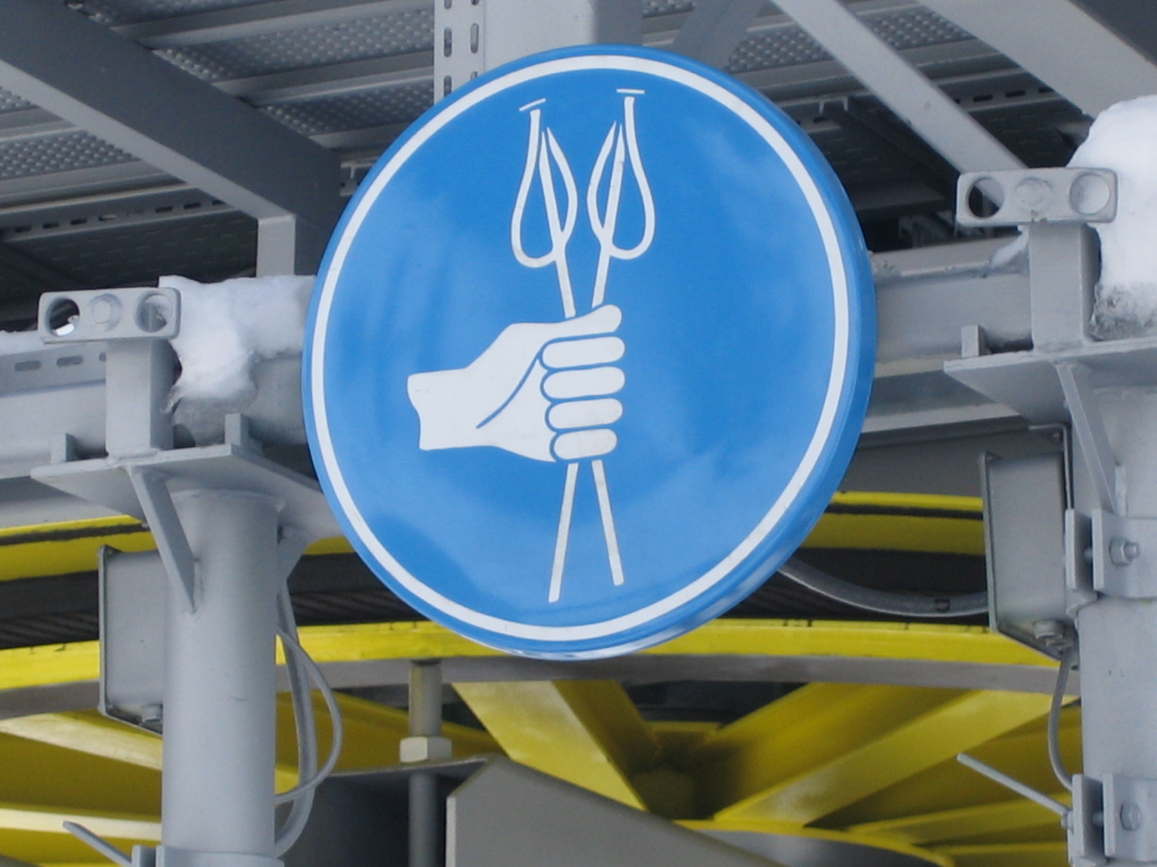 A board by a surface lift for skisticks. It is my own work.